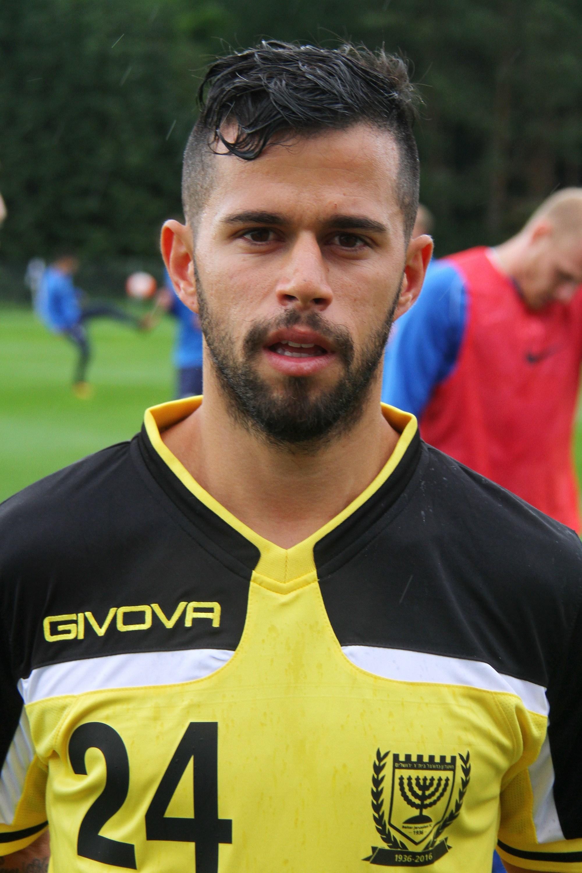 Friendly match between Beitar Jerusalem F.C. (yellow shirts) and MTK Budapest FC (blue shirts) at 2016-06-18 in Bad Erlach (Austria. – The photo shows Snir Mishan, Beitar Jerusalem F.C.